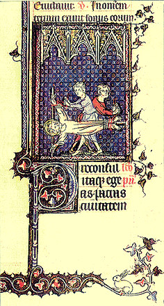 Image of the martyrdom of Saint Andrew.